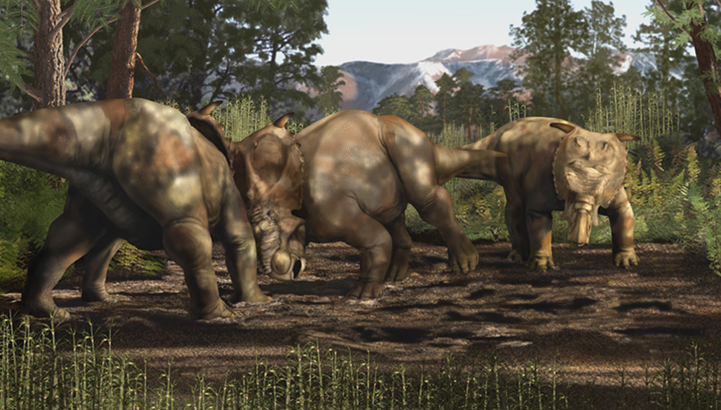 Artistic rendering of Pachyrhinosaurus perotorum engaged in head-butting/pushing behavior. In the first description of Pachryhinosaurus by Sternberg, he speculated that the enlarged nasal boss in the taxon might have been used in head battering or pushing behavior, an idea emphasized by this image of two Pachyrhinosaurus perotorum sparring with their craniofacial bosses, while a third looks on.